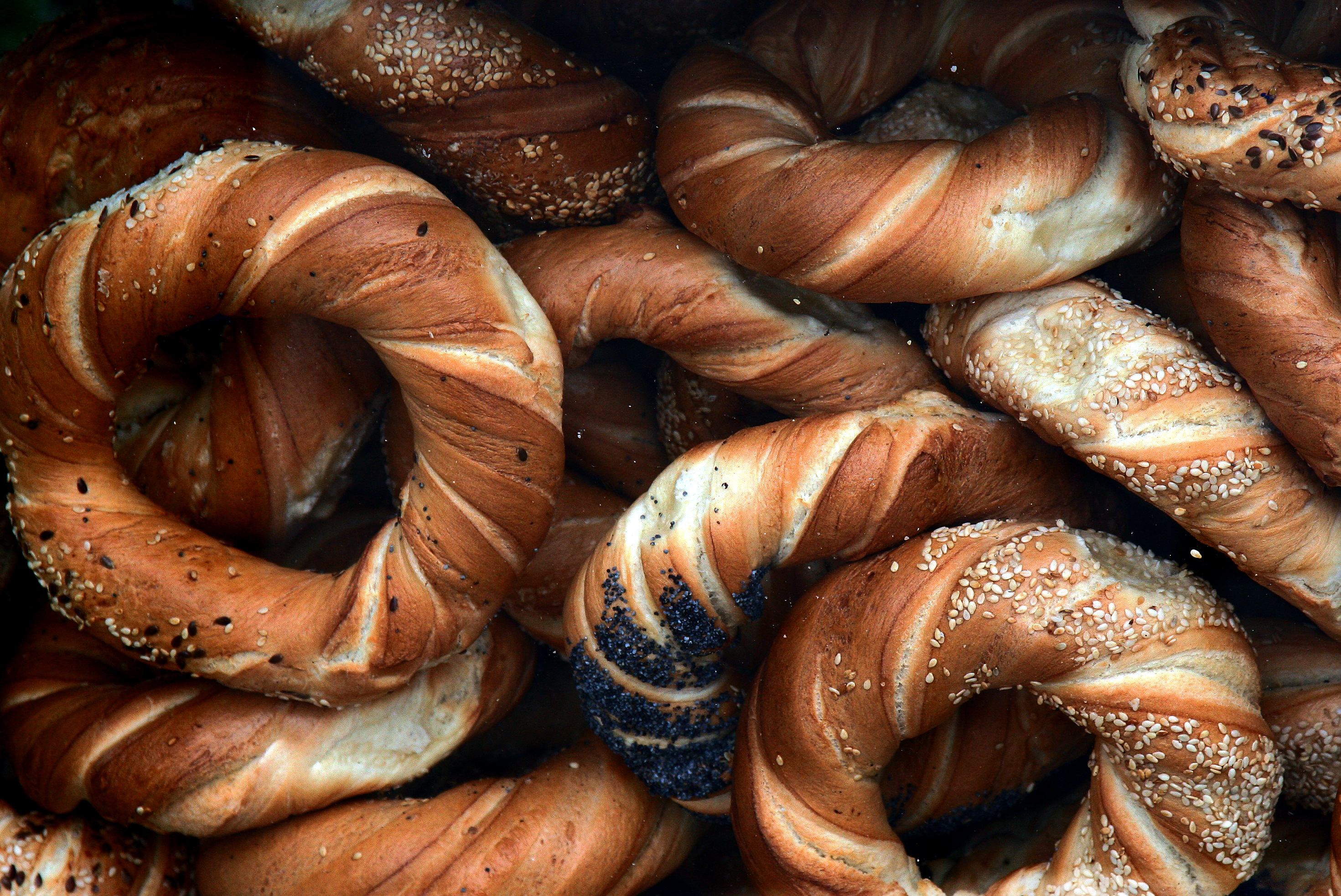 Assorted obwarzanki krakowskie, or ring-shaped breads. Poppy seed, sesame seed and black cumin varieties.